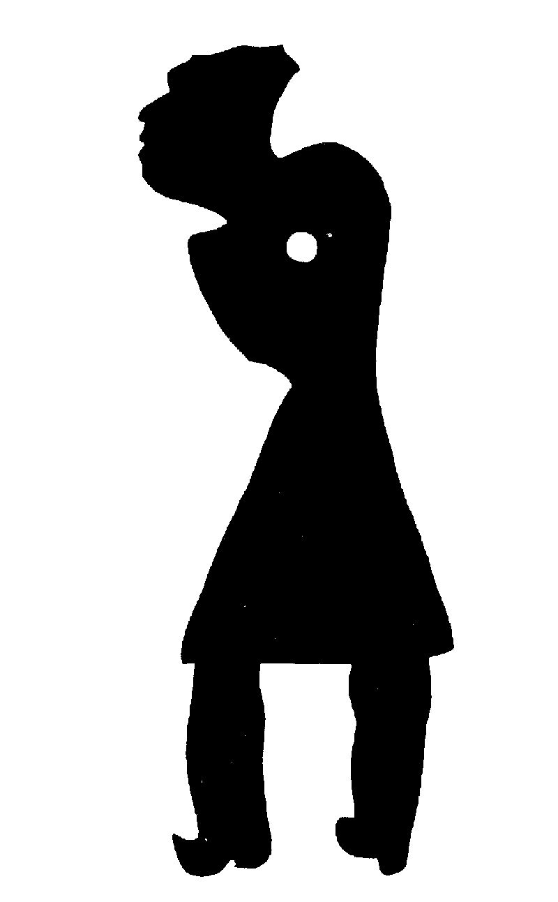 Jew, shadow puppet, Libya